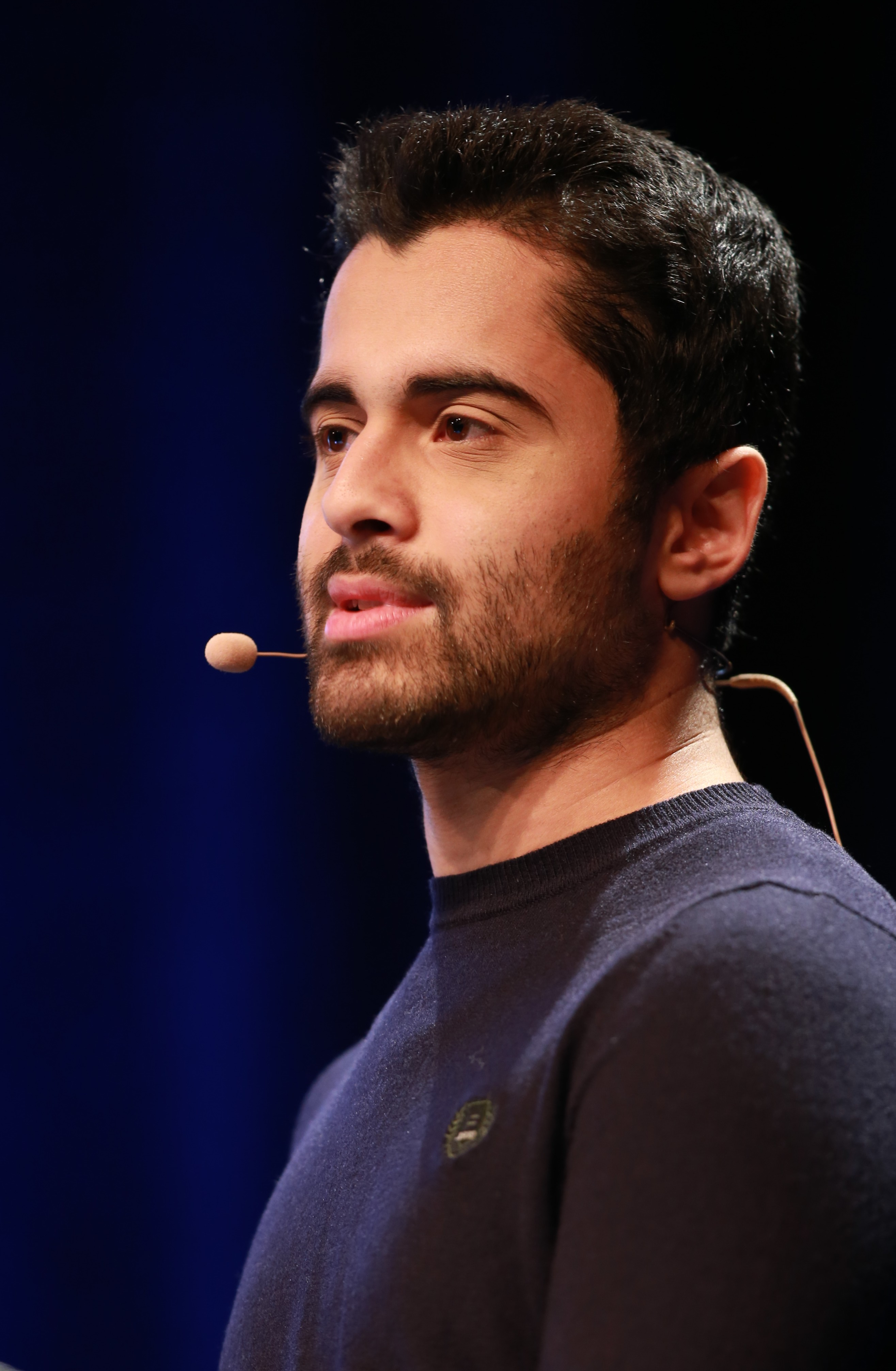 Mustafa Al-Bassam, 34th Chaos Communication Congress, Leipzig.